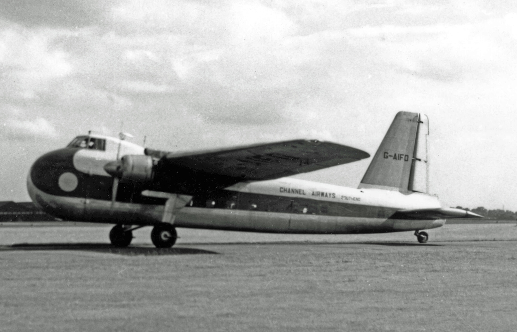 Bristol 170 Srs 21 Freighter of Channel Airways at Manchester Airport